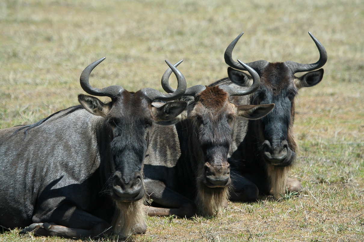 Taken by Schuyler Shepherd(Unununium272). Canon 350D, 100-400mm f/4.5-5.6 L IS